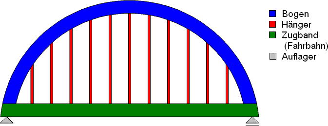 a pattern of an elbow bridge, description in german